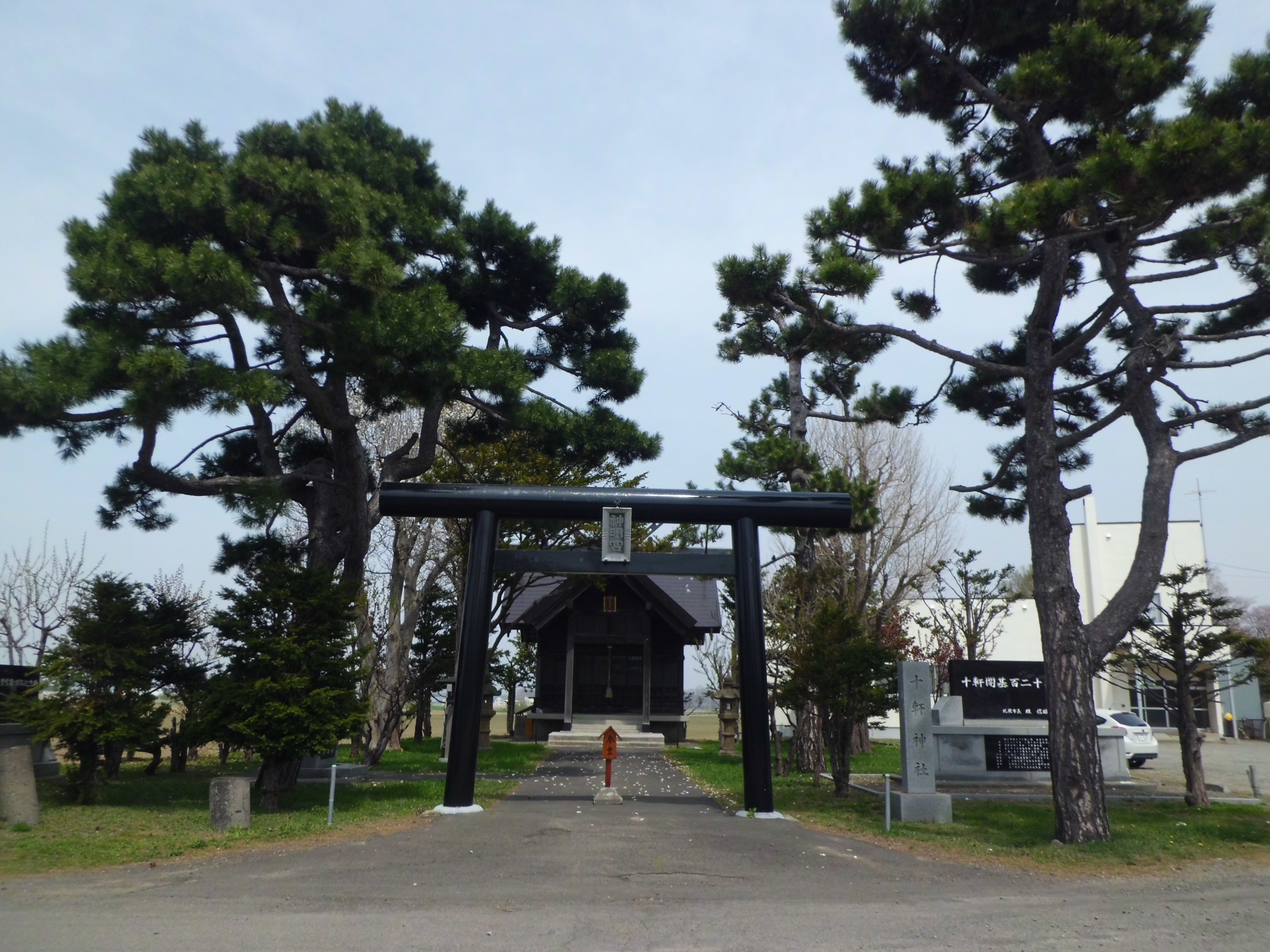 Jikken Shrine in Kita-ku, Sapporo